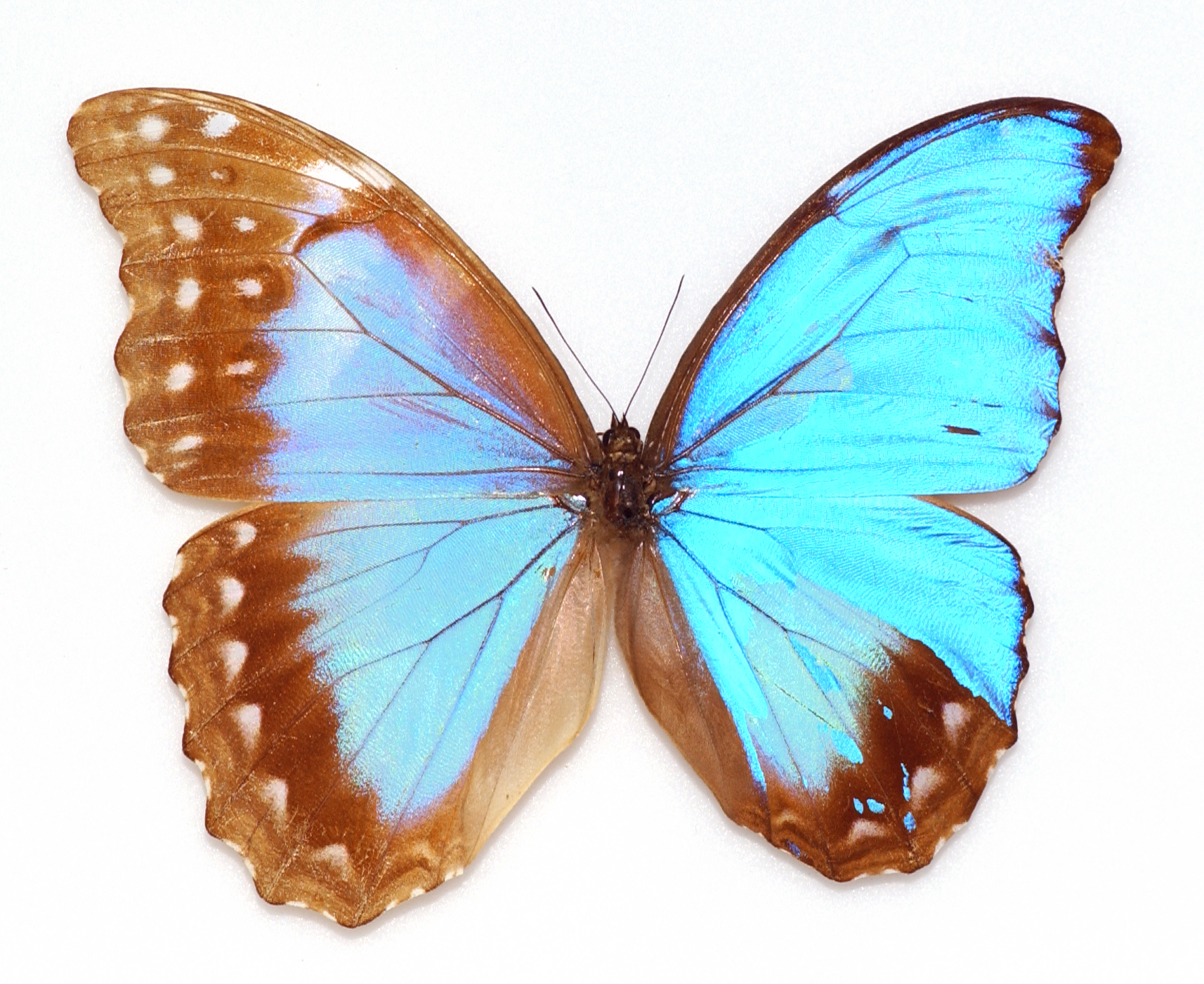 Morpho (male) This specimen Morpho comes from naturalists collections of Lille natural history Museum.